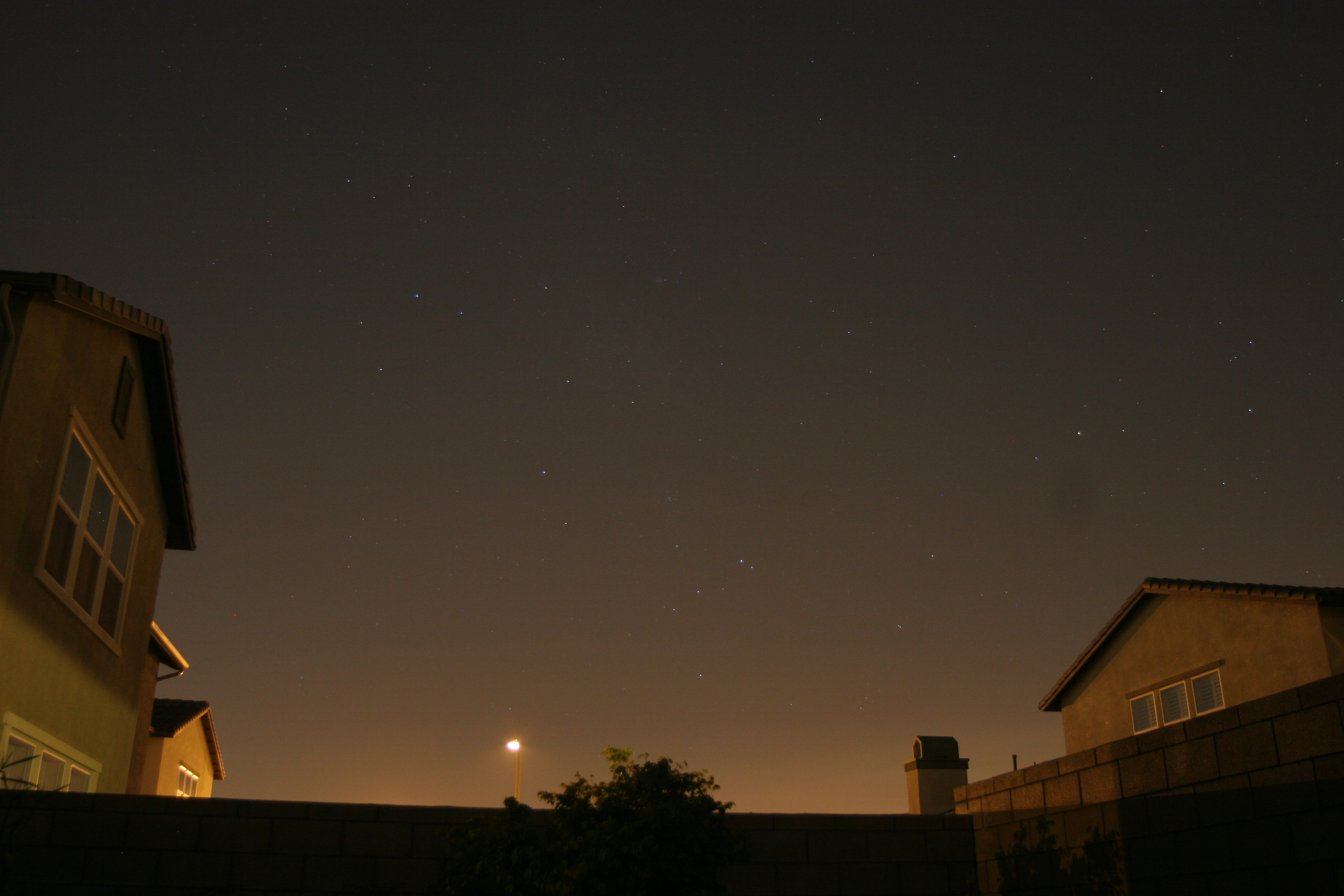 In this 10-second exposure photo, facing south toward Sagittarius, three forms of light pollution obscure the stars and faintly visible Milky Way in the suburban night sky over Southern California: skyglow, glare, and light trespass.